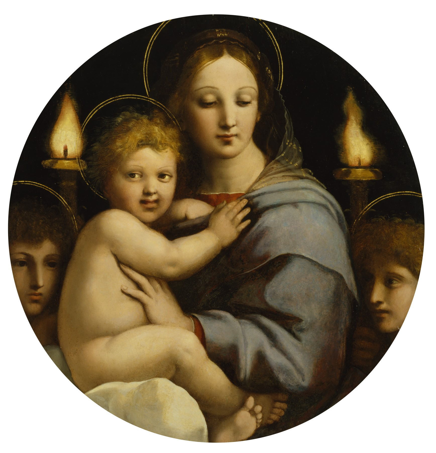 Painted in Rome, this tondo (circular painting) of the Virgin and Child employs a rare motif of flanking candelabra that was derived from representations of ancient Roman emperors. Through this reference to the rulers of antiquity, Raphael alludes to Christ's and Mary's roles as the king and queen of Heaven. Raphael was famed for his graceful style. which combined the study of classical sculpture and nature. The chiaroscuro effects (modeling in light and shade) and gentle coloring give the figures a soft, delicate appearance. The painting relies heavily on the participation of Raphael's workshop, and the two angels certainly were done by his assistants. This was the first Madonna painted by Raphael to enter a North American collection.